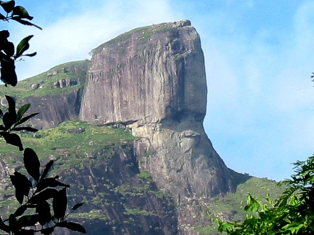 Pedra da Gávea, Rio de Janeiro, Brasil. Photo of the Rock of Pedra da Gavea (Rio de Janeiro)